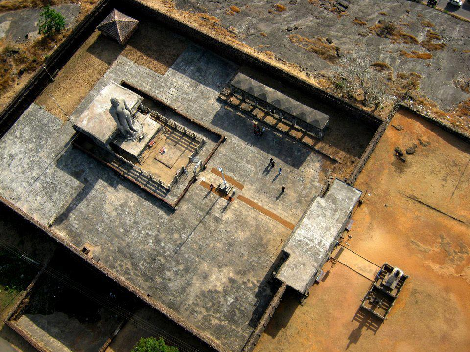 This photo in taken venuru. The place is very famus for monolithical statue of lord bahubali